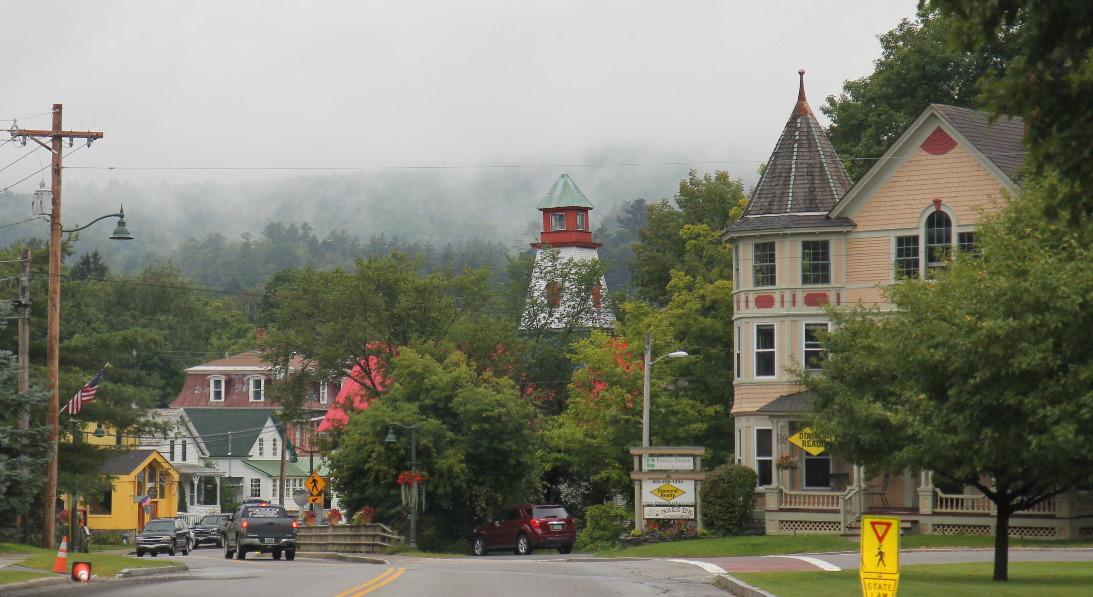 Downtown Ludlow, Vermont on VT103